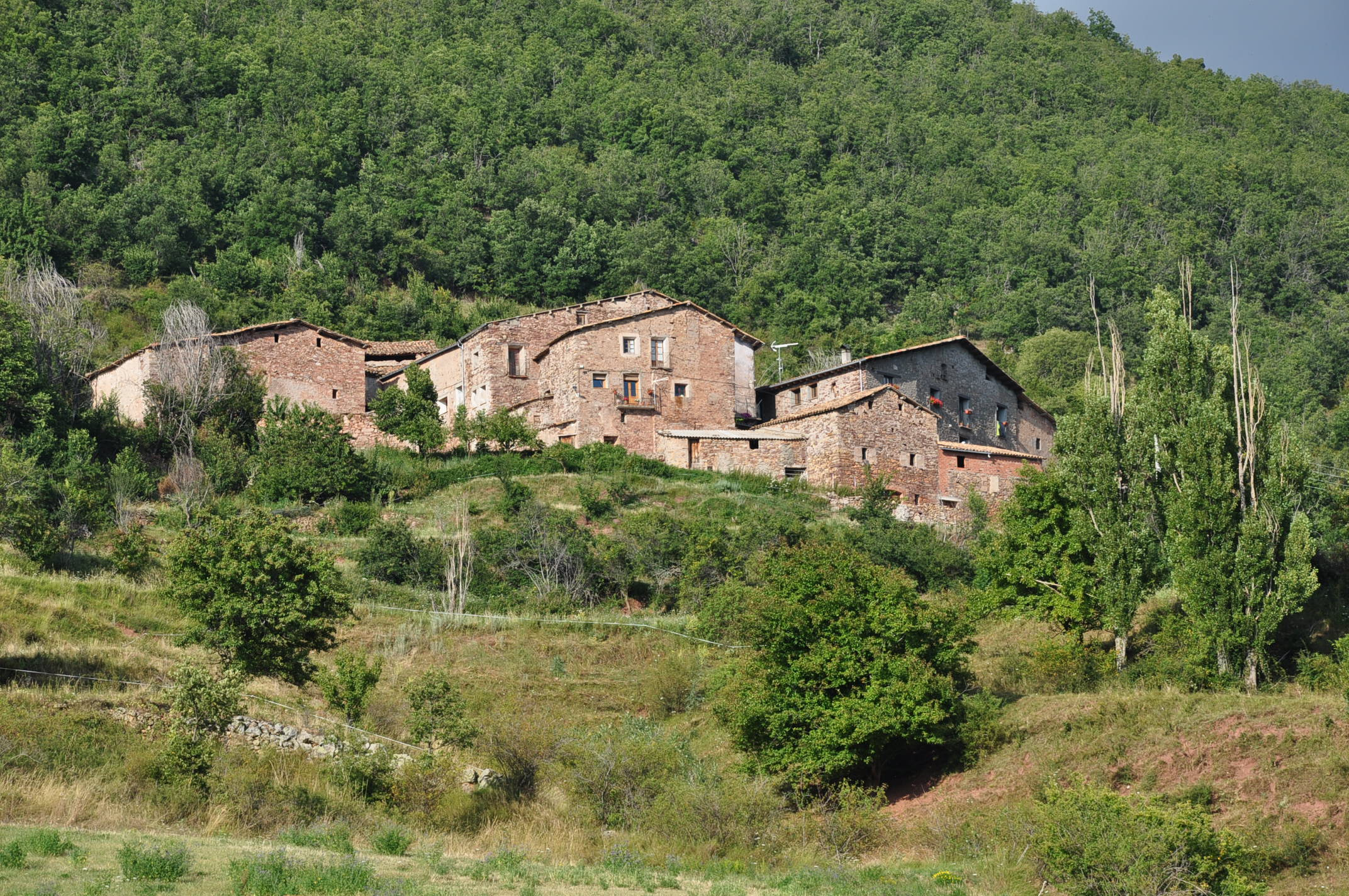 The village of Igüerri in the Pyrenees (municipality El Pont de Suert, district of Alta Ribagorça, Catalonia, Spain).